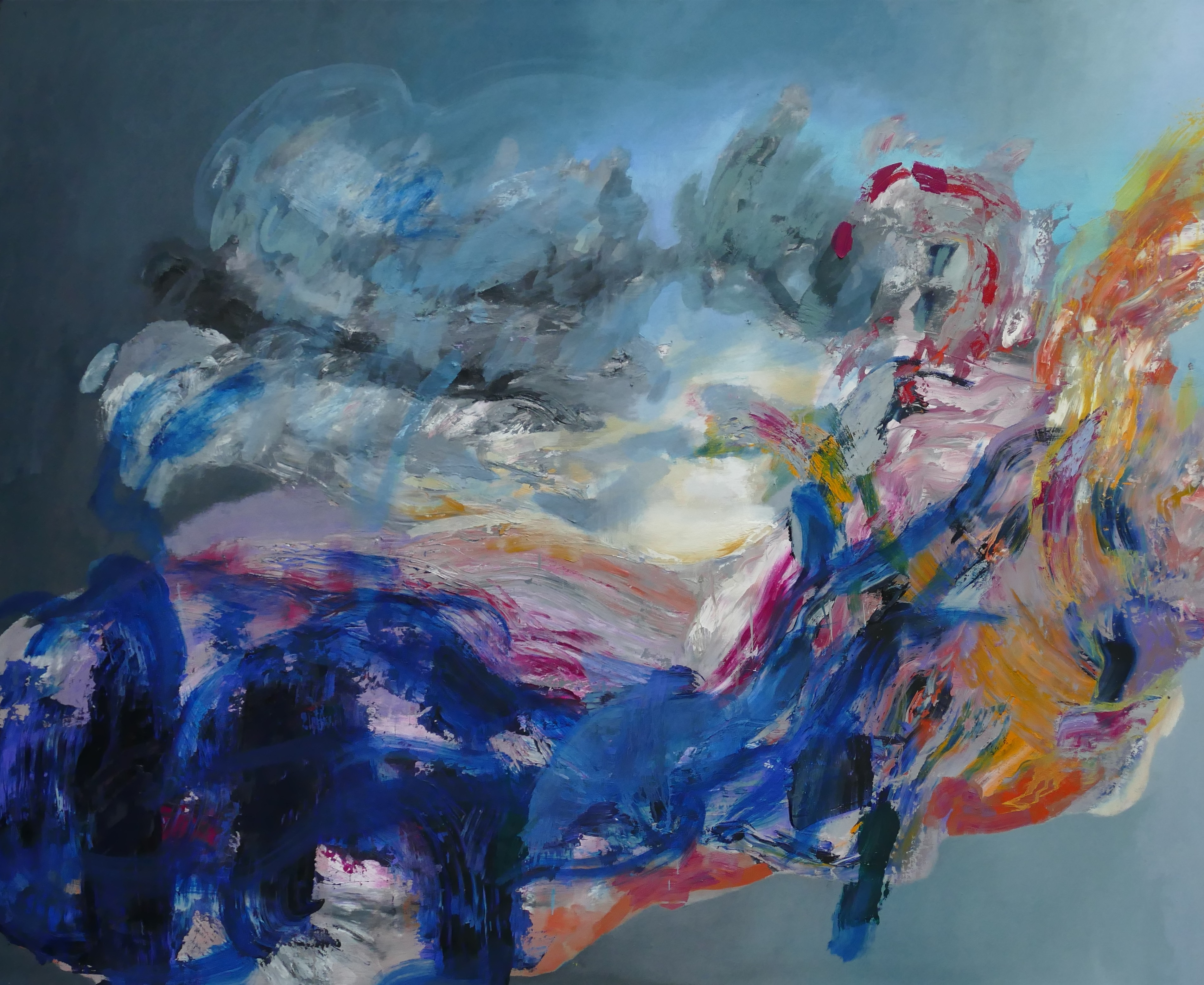 Hermann Kremsmayer, 130 x 160 cm, 2020